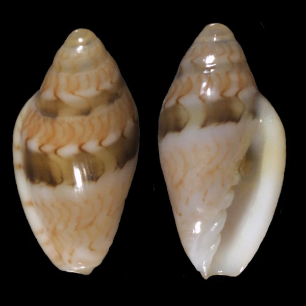 Species: Marginella bavayi Bavay in Dautzenberg, 1912 Specimen: Luis Ferreira collection Data: trawled by local fishing boats off Gorée Isl., Senegal